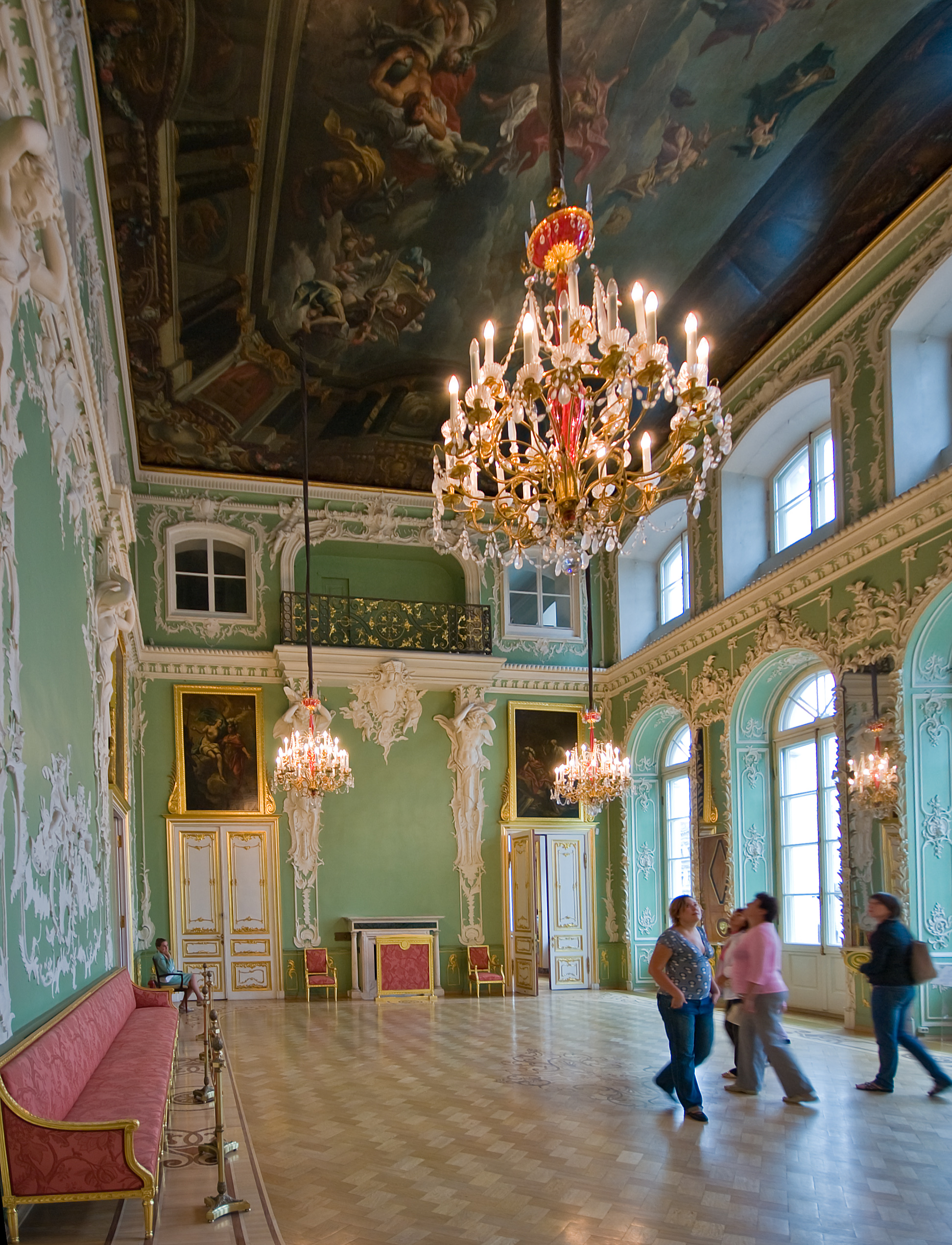 GRAND HALL, Stroganov Palace The interior was designed after the architect Francesco Rastreili's project in the 1750s who had not Finished his work. The plafond represents a painterly composition painted by Italian master Valeriani (central part) and Antonio Pcresitotti. Dessus des portes (paintings above the doors) were painted by unknown master and show Aeneas' story. The restoration was carriied oui with intervals in 1993-2003.